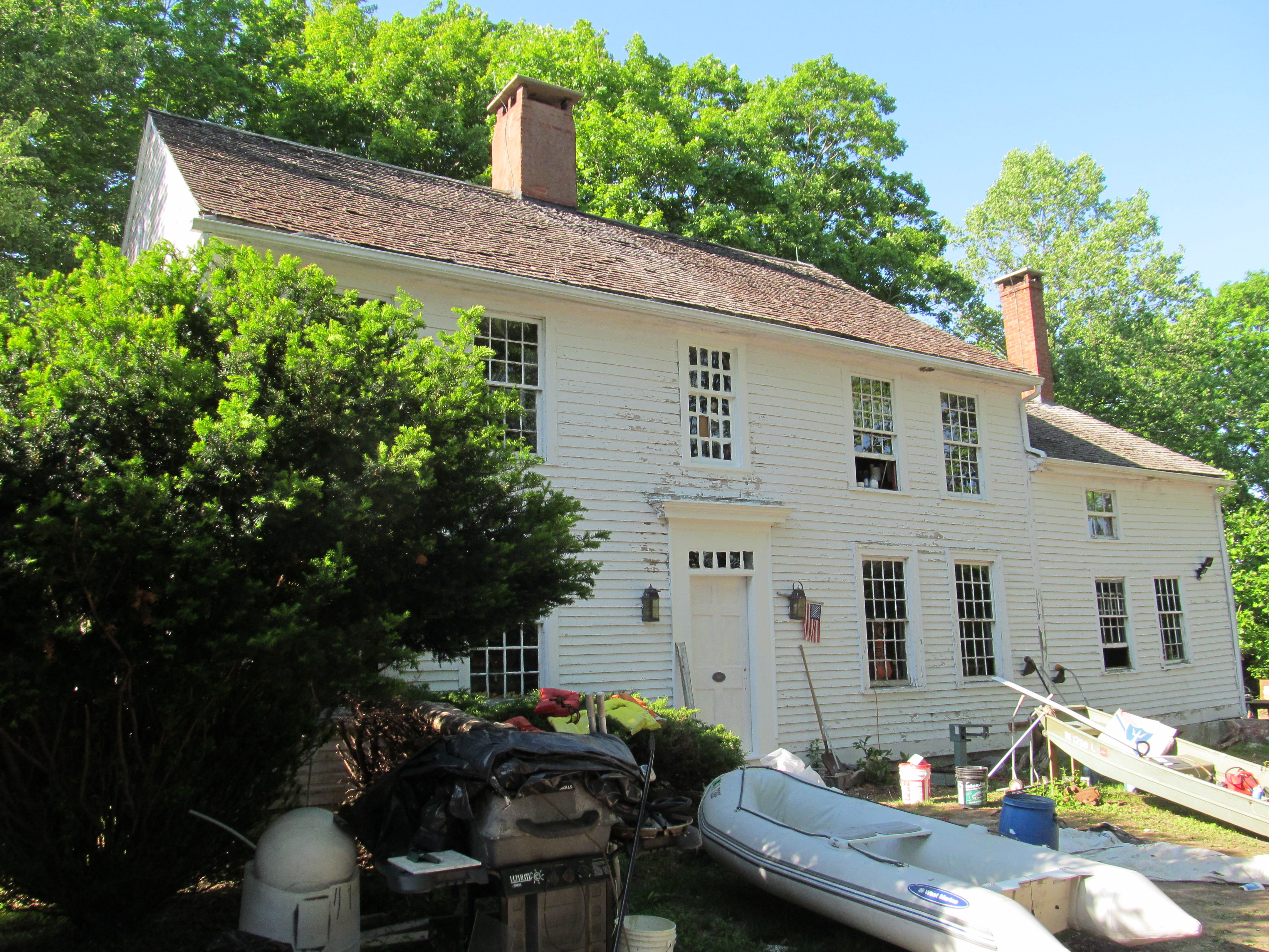 Main house of Applewood Farm in Ledyard, Connecticut